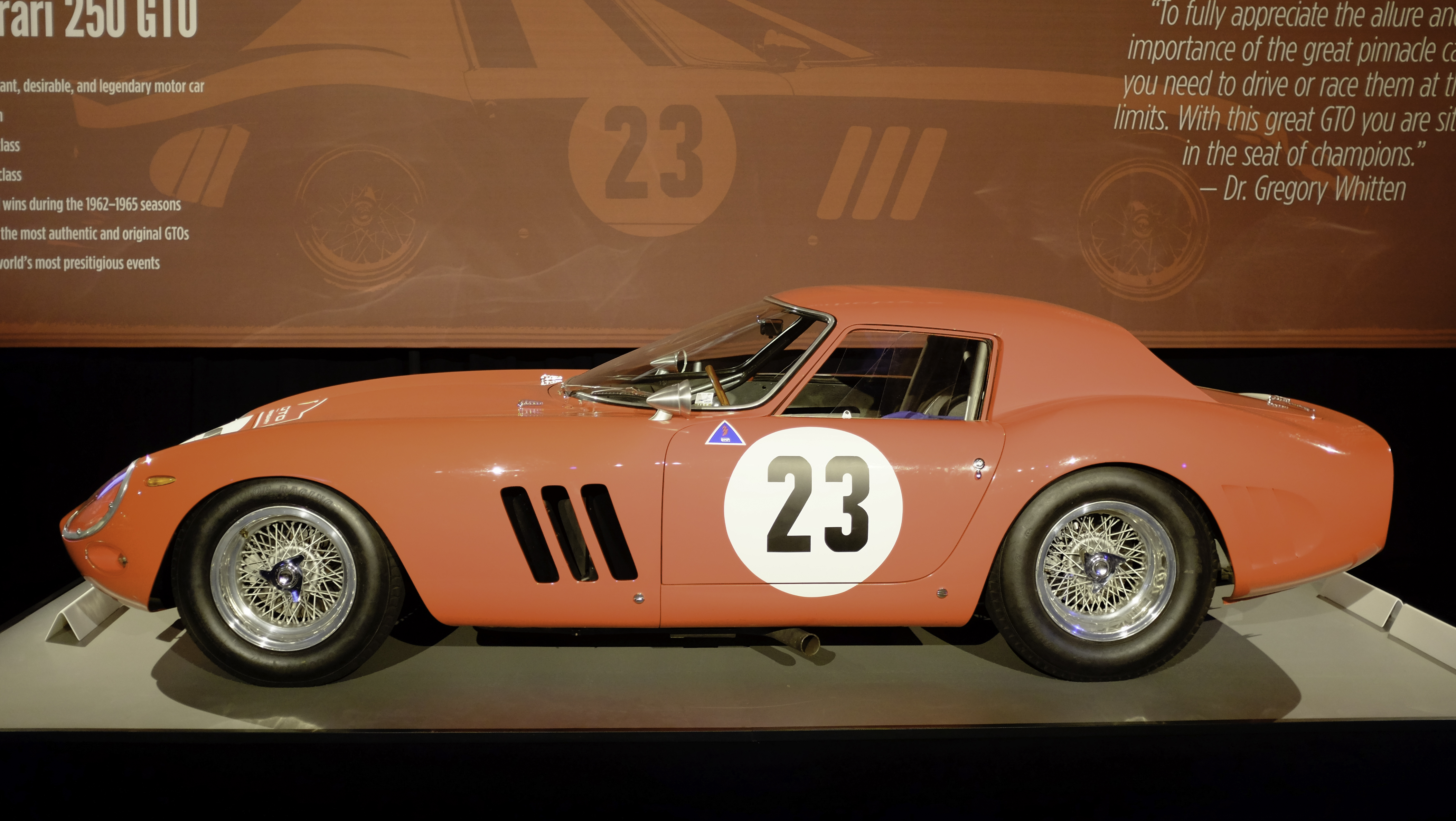 Ferrari 250 GTO serial number 3413GT on display at RM Sotheby's 2018 Monterey auction.